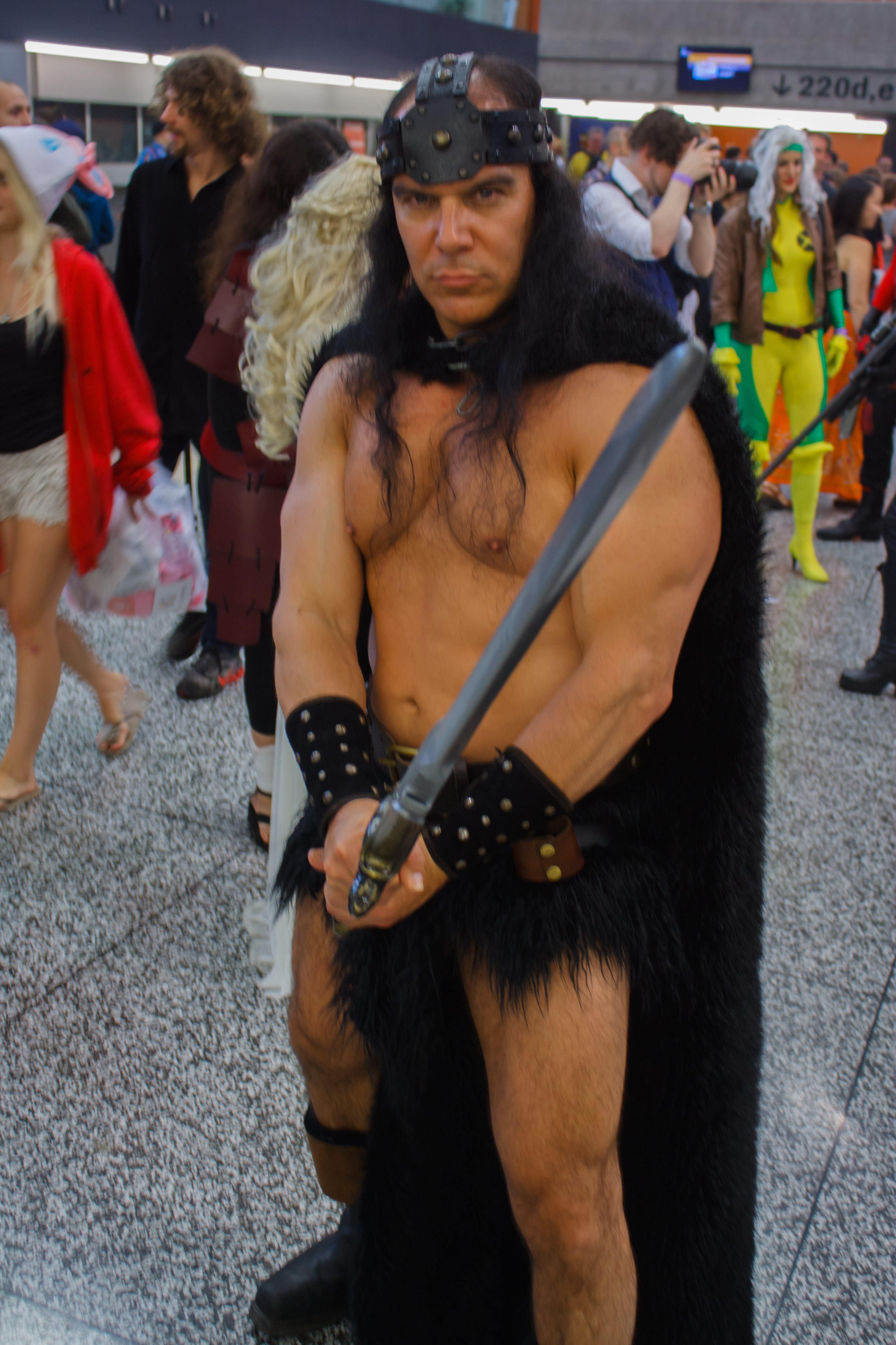 Cosplay on Saturday, day two, of the Montreal Comiccon 2016.